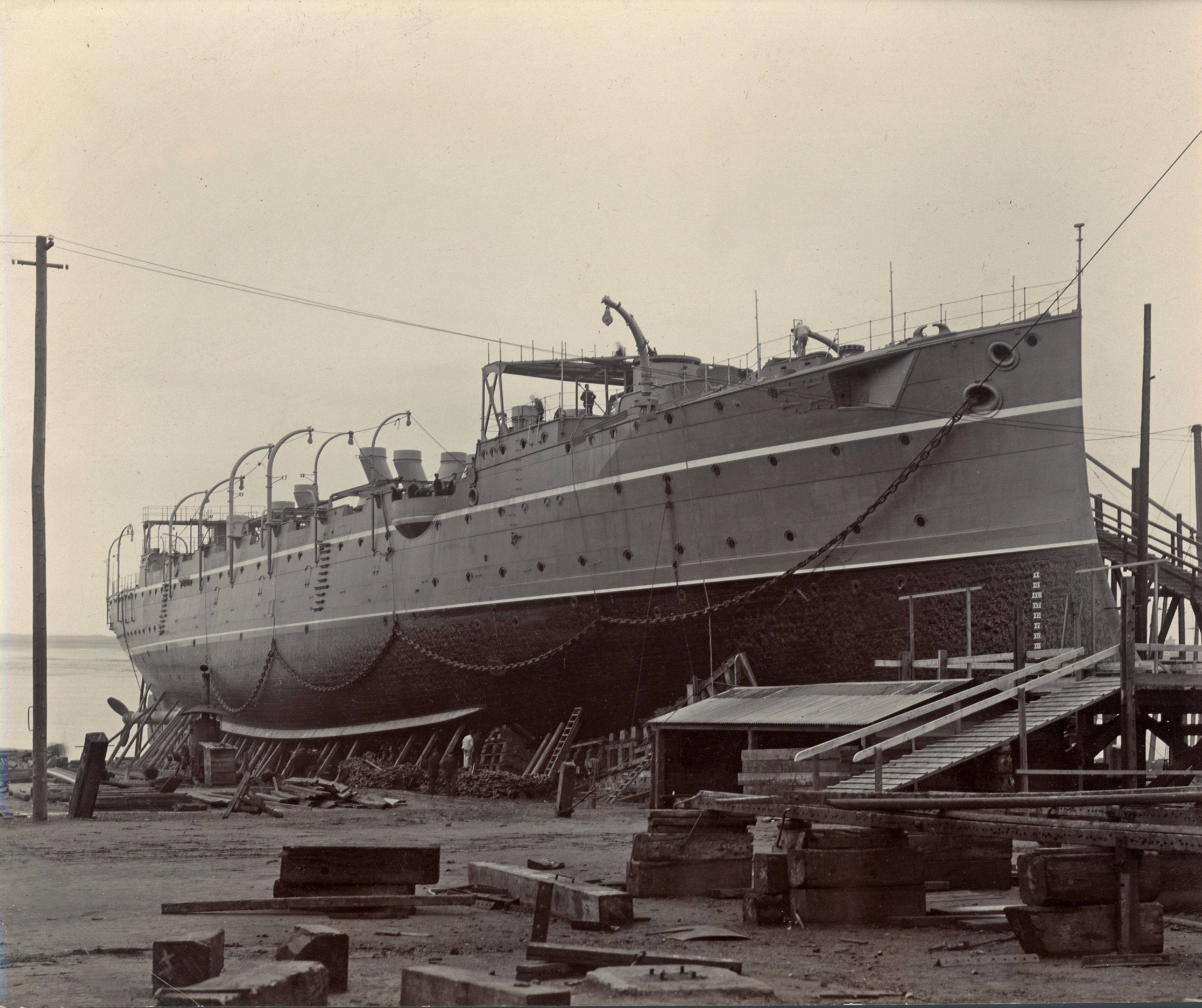 Format: Fotopositiv Dato / Date: ca. 1895 Fotograf / Photographer: Ukjent Sted / Place: England Oppdatert / Update: 20.07.2015 [forandret fra HMS Hogue til Eclipse-class cruiser] Wikipedia: Eclipse-class cruiser Eier / Owner Institution: Trondheim byarkiv, The Municipal Archives of Trondheim Arkivreferanse / Archive reference: Tor.H44.L02.F9334